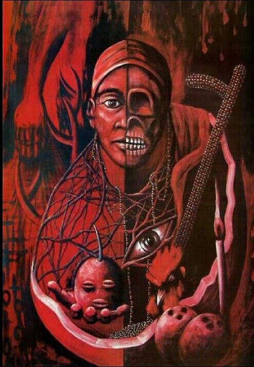 A Depiction Of The Orisha Ellegua